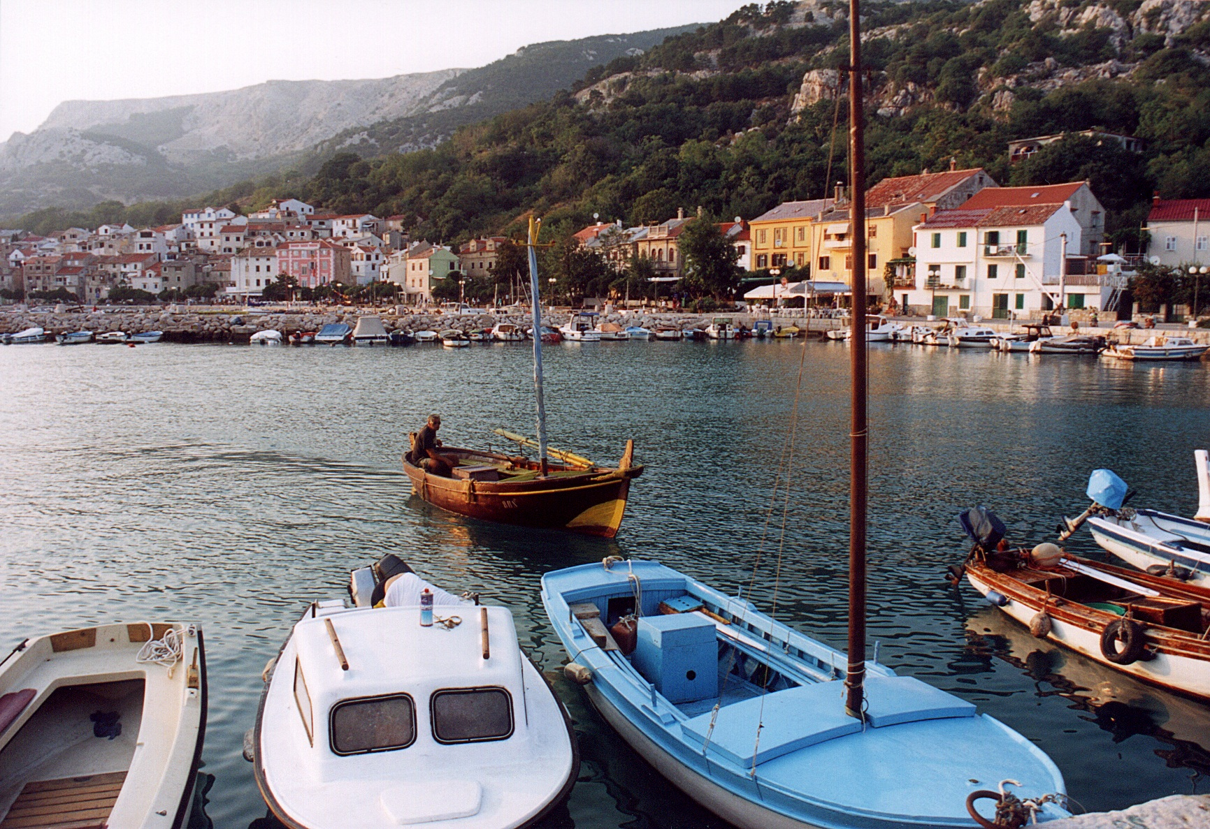 Harbour in Baška in Croatia at the isle Krk